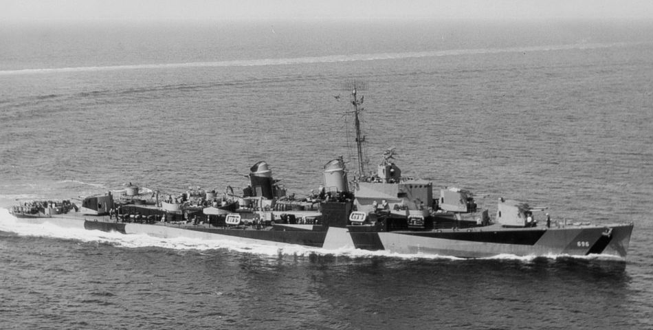 USS English (DD-696). Edited by Destroyer History Foundation from photo 19-N-66423 scanned at the National Archives and Records Administration.